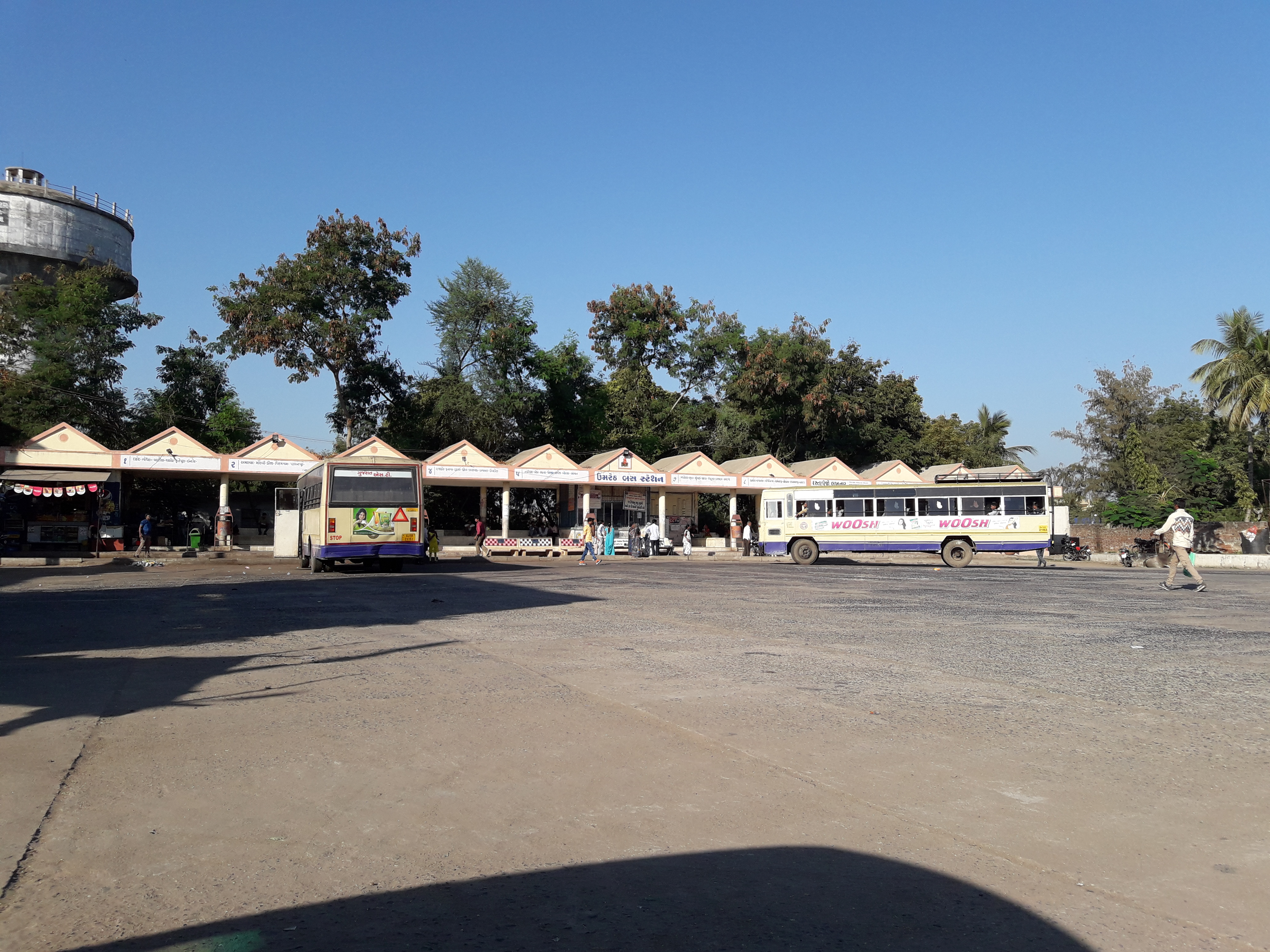 GSRTC Bus Station, Anand district, Gujarat